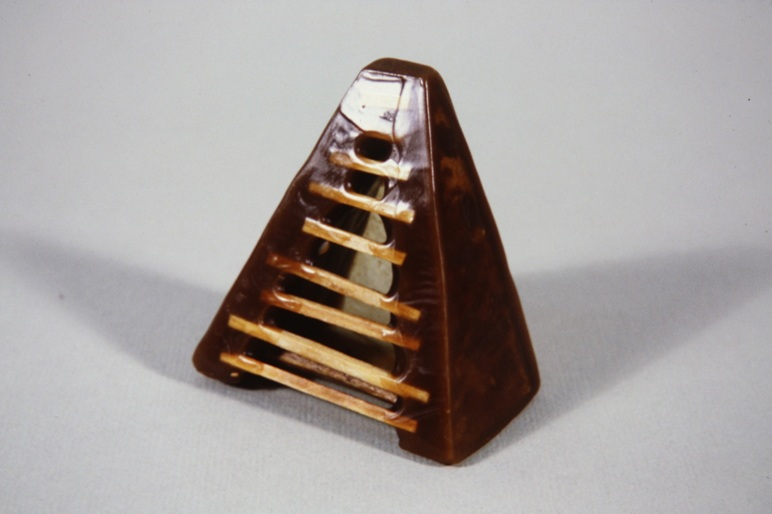 Range, a sculpture by Richard Alpert